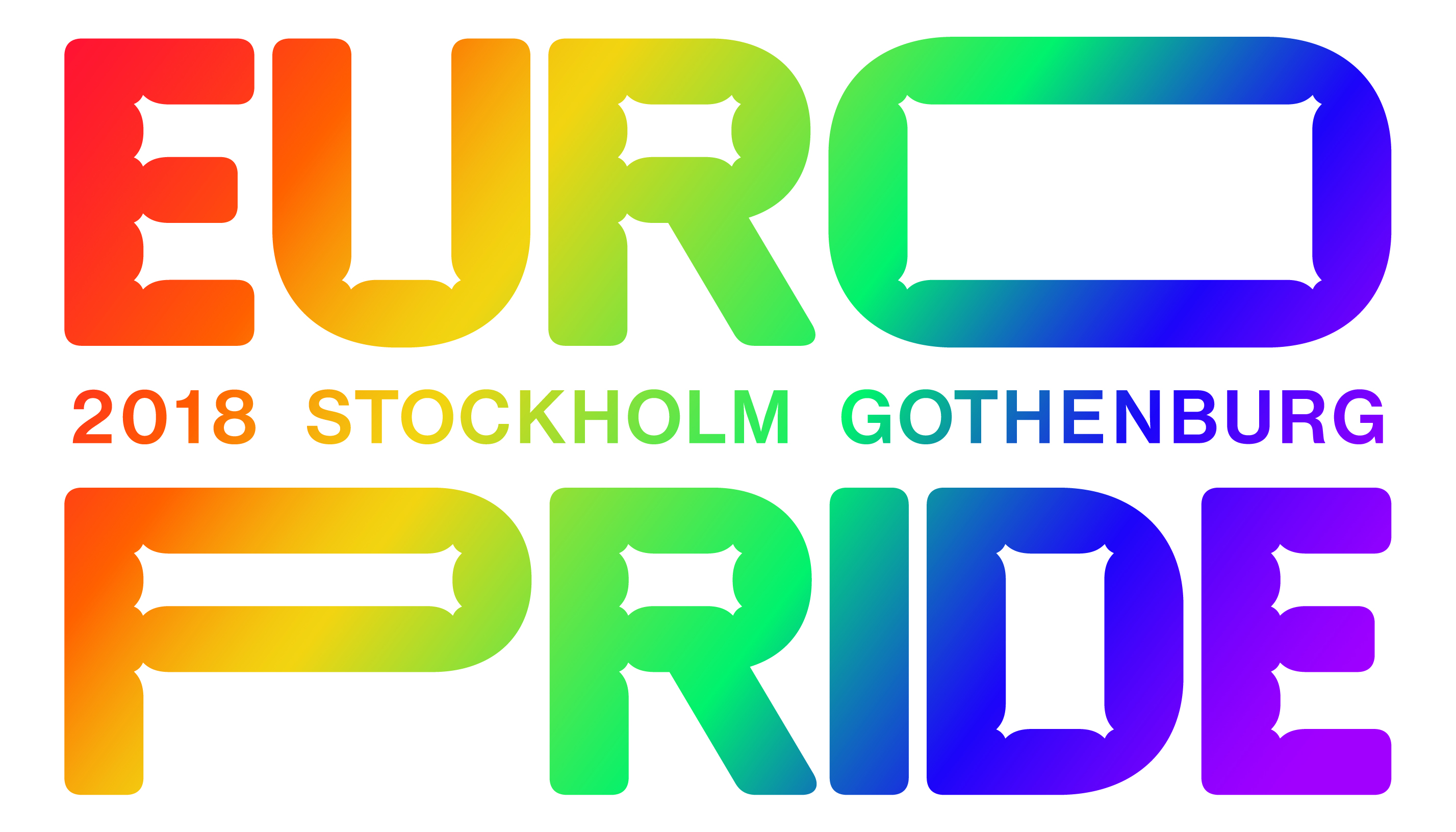 Logo of the Europride 2018 in Stockholm+Gothenburg